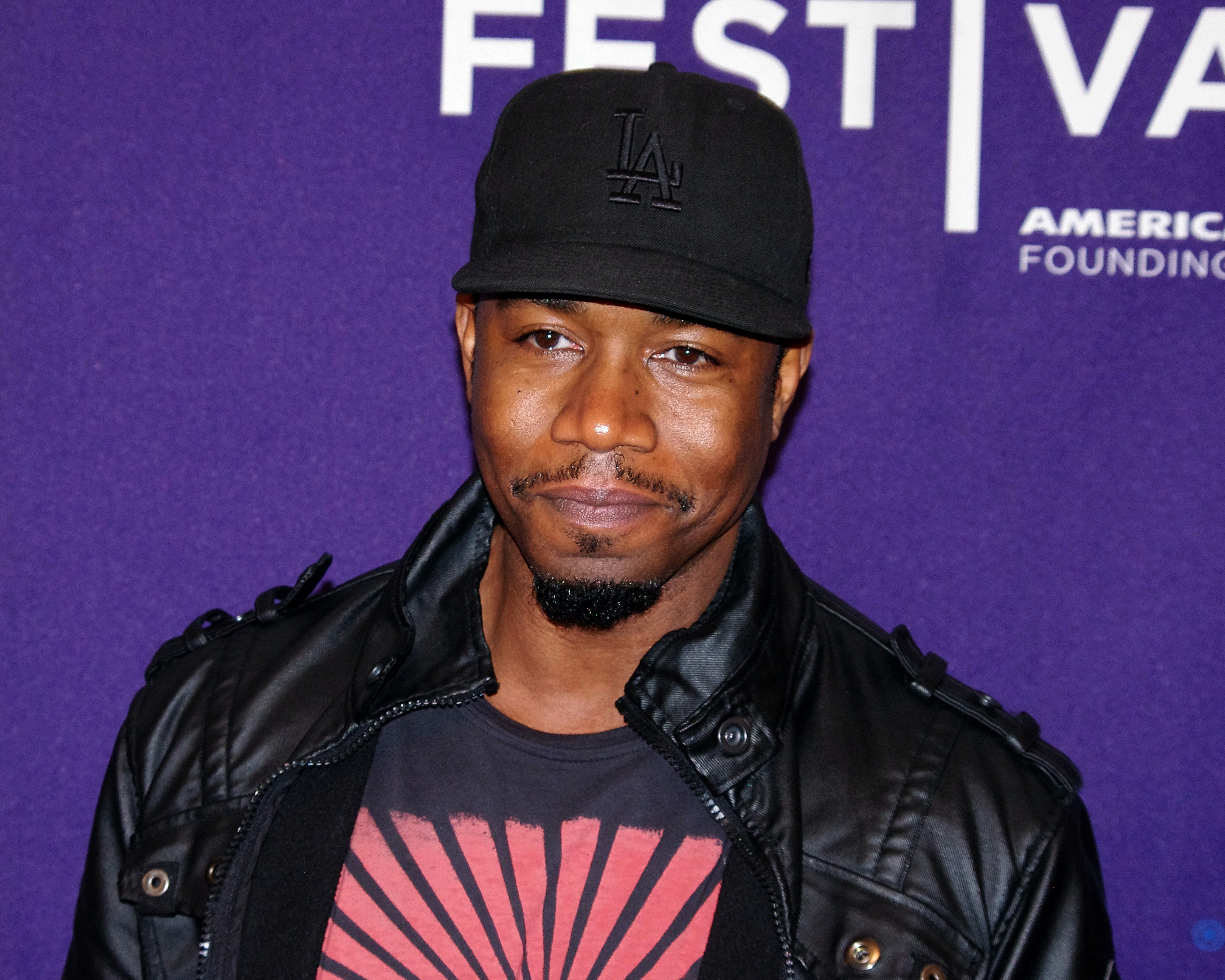 Michael Jai White at the 2012 Tribeca Film Festival premiere of Supporting Characters.